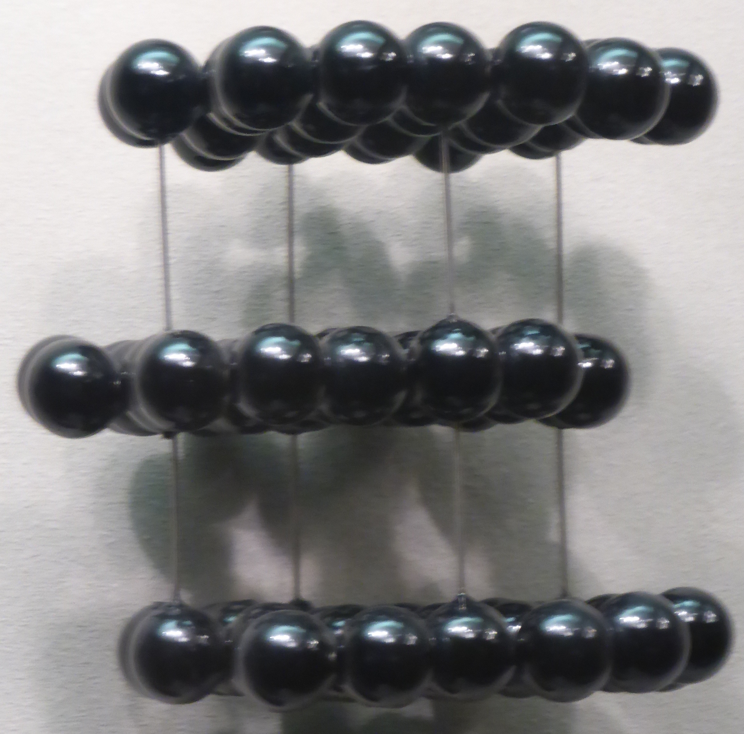 Kristallstruktur von Graphit